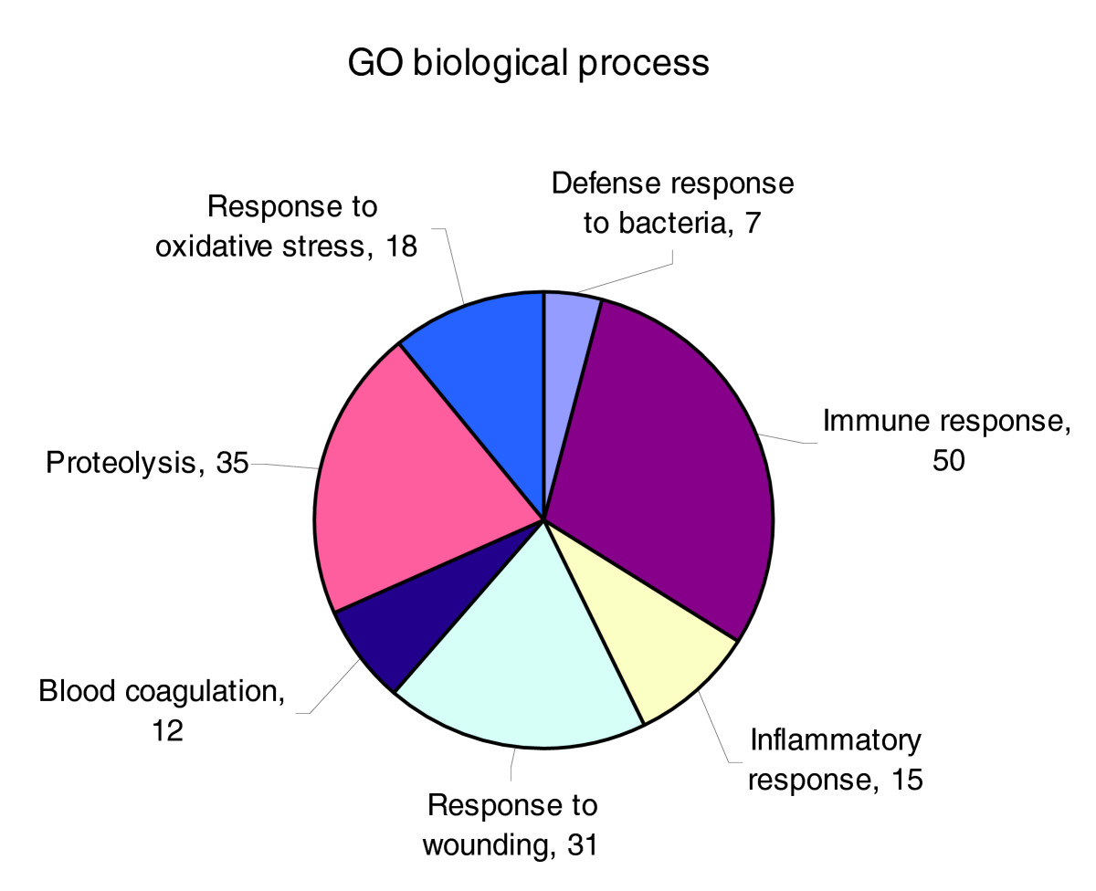 Relevant genetic ontology (GO) biological processes identified in the tear fluid. In the tear fluid, the most over-represented groups identified according to GO biological process were those involved in defense of the eye environment. These mainly comprised process such as immune response, defense against external biotic agents, response to wounding, and blood coagulation. Interestingly, 18 proteins responsible for response to oxidative stress were identified, only two of them described previously in tear fluid samples. de Souza et al. Genome Biology 2006 7:R72